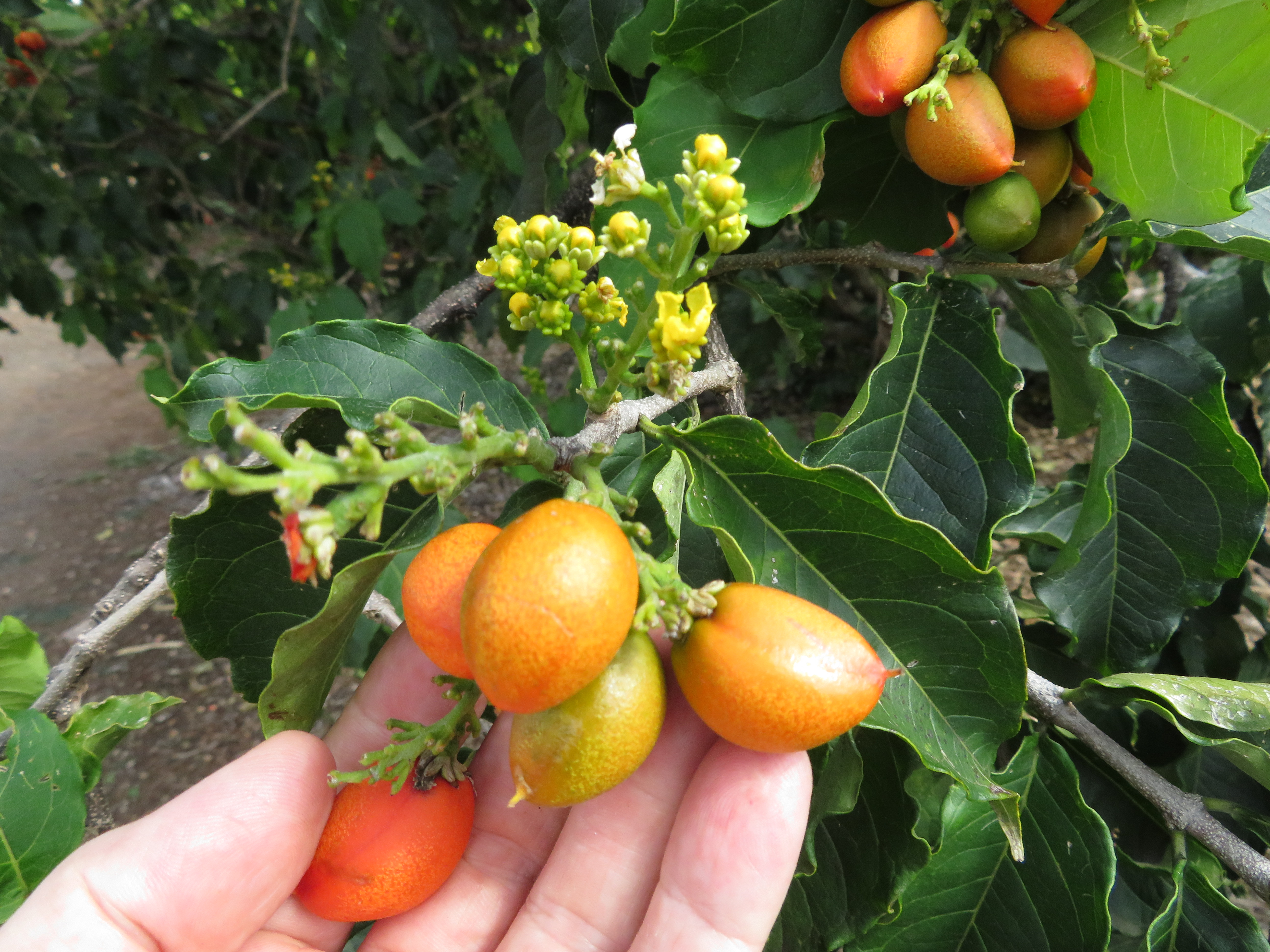 Bunchosia argentea (Peanut butter fruit) Fruit leaves at CTAHR Urban Garden Center Pearl City, Oahu, Hawaii. September 13, 2017 #170913-0177 - Image Use Policy